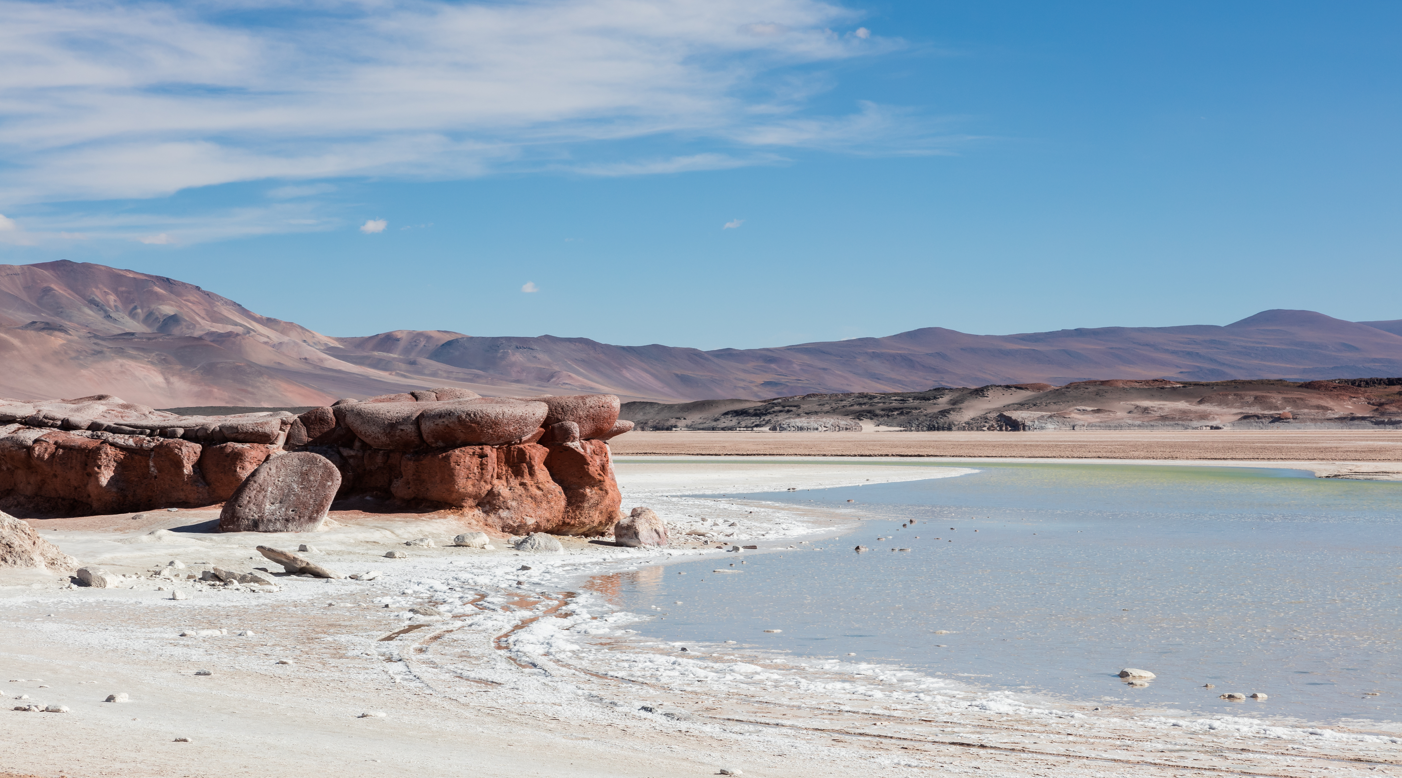 Piedras Rojas (in English "Red Stones"), a singular rock formation in the Aguas Calientes salt lake, high puna of northern Chilean Andes. The Aguas Calientes salt lake belongs to the bigger Talar salt lake, of a surface of 46 square kilometres (18 sq mi) and located at an altitude of 3,950 metres (12,960 ft).